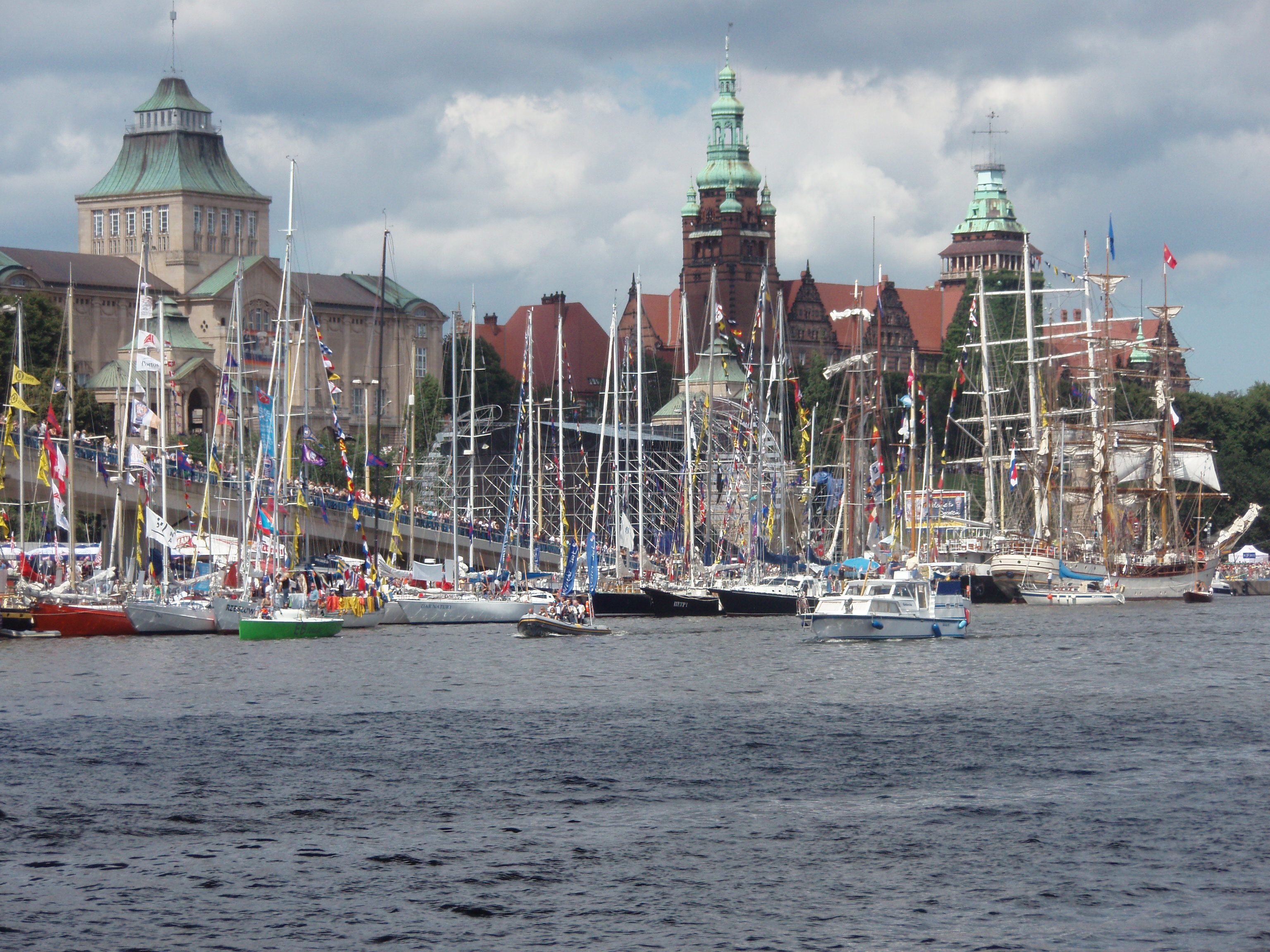 The Tall Ships' Races 2007 in Szczecin